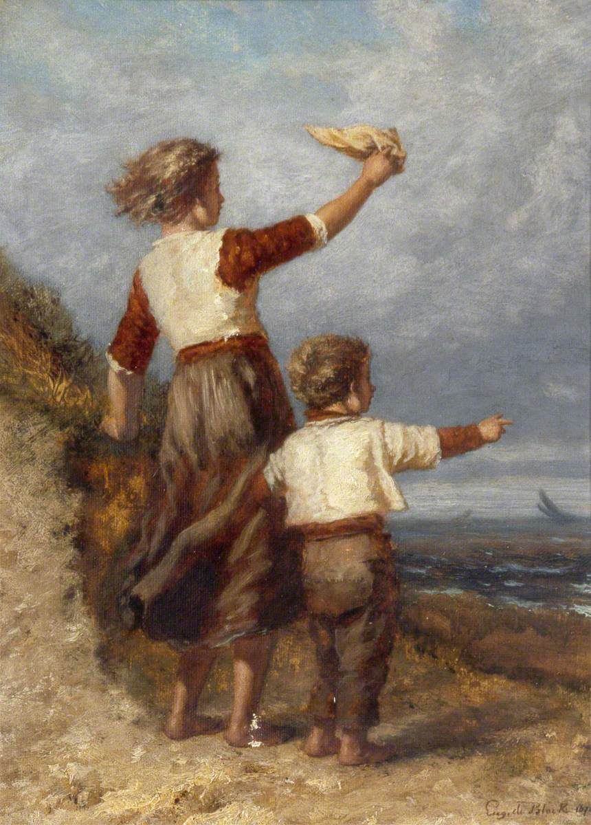 The Signal